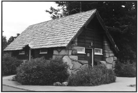 Comfort Station No. 68 (west elevation) at Crater Lake National Park, Oregon, United States, is listed on the US National Register of Historic Places (NRHP). NRHP reference number 88002624